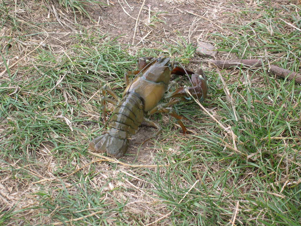 Signal Crayfish Pacifastacus leniusculus ("American Crayfish") caught in Grand Union Canal, England, near its infill from the River Nene